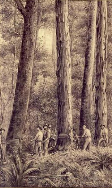 "Felling Matai [Prumnopitys taxifolia] and Red Wood [?] in Seaward Forest", plate from 'The Forest Flora of New Zealand'